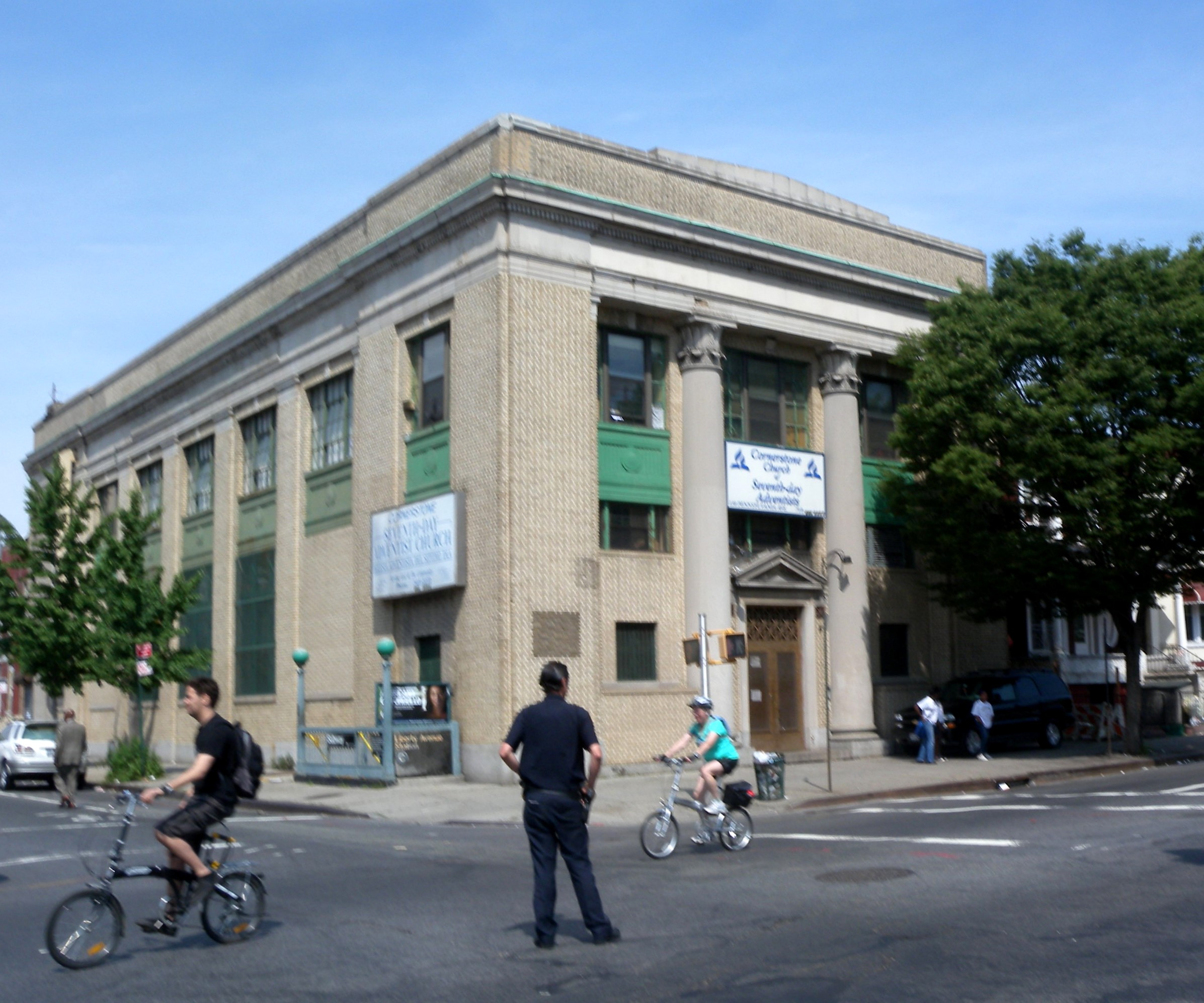 Looking west across Liberty and Pennsylvania Avenues at Cornerstone 7th Day on a sunny morning.